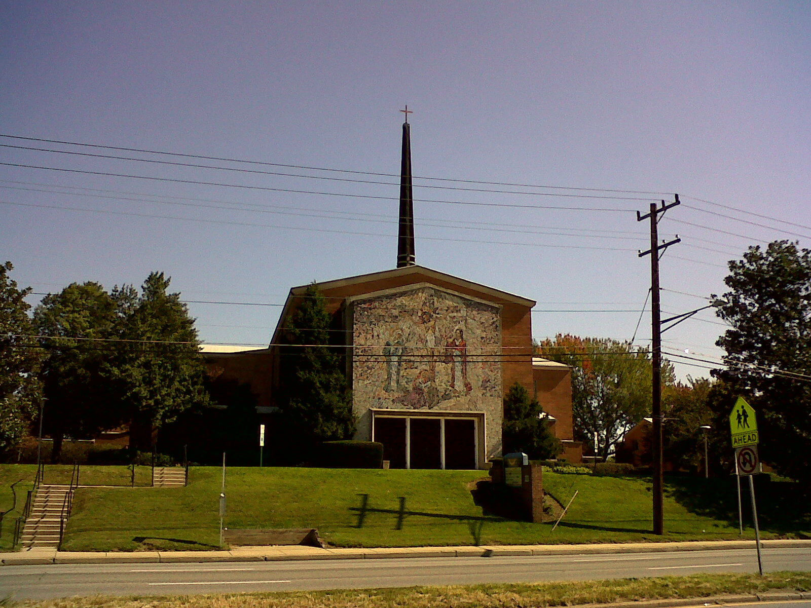 St. John the Evangelist Catholic Church (1962 church) in Silver Spring, Maryland taken from across Georgia Avenue.